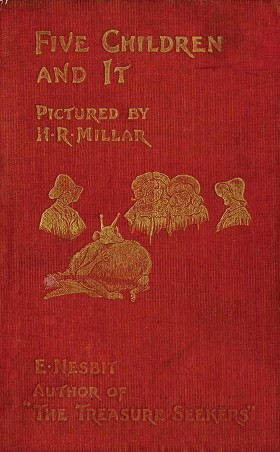 1st edition front cover for Five Children and It